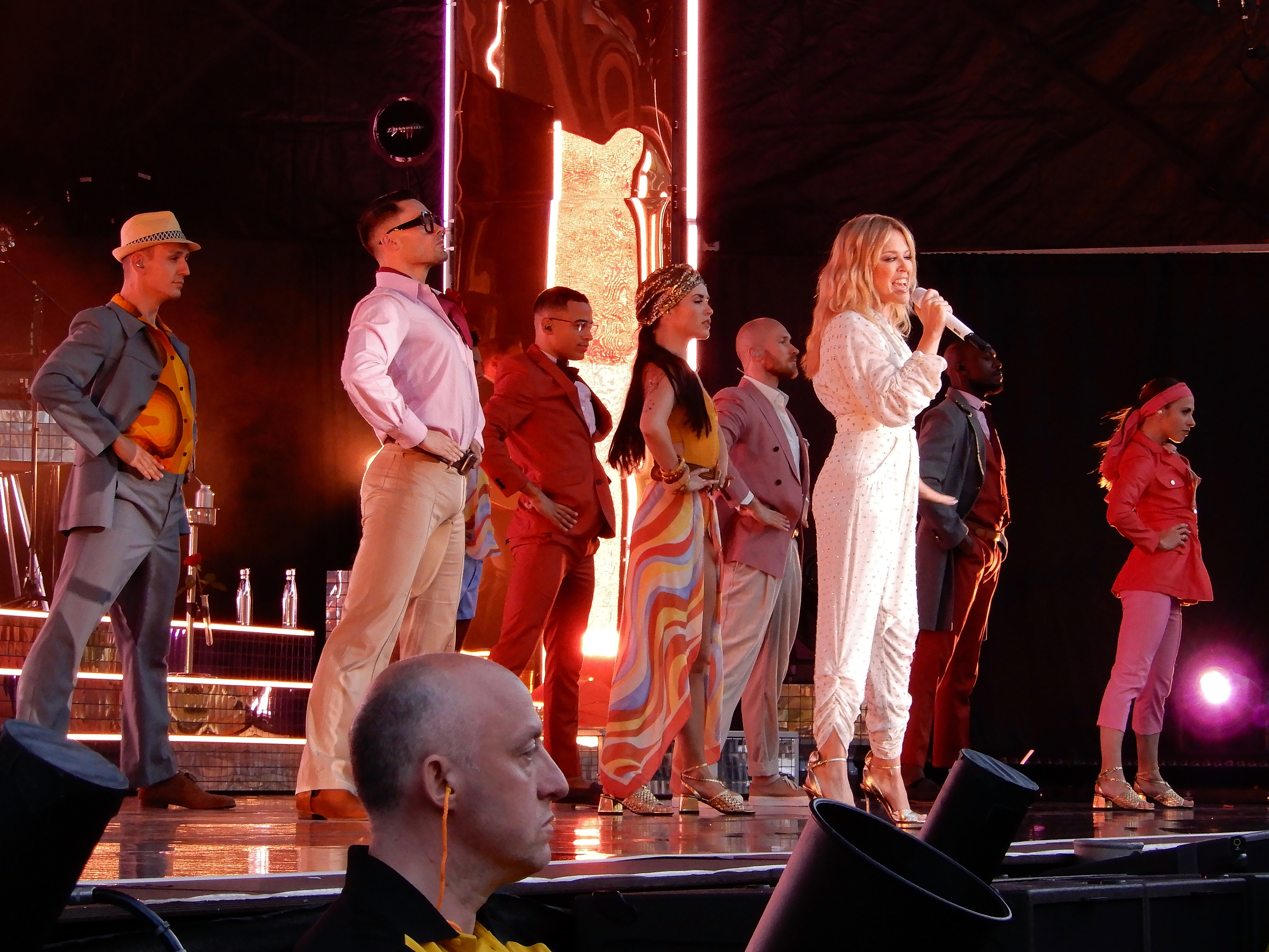 Kylie Minogue summer tour 2019